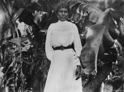 Kanaka women at Farnborough 1895